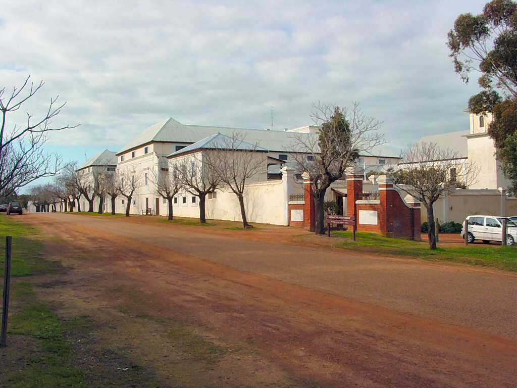 Buildings at the New Norcia, Western Australia Benedictine Monastery. Category:Images of Western Australia